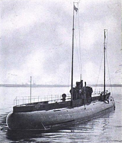 German submarine Deutschland, which saw service in World War I